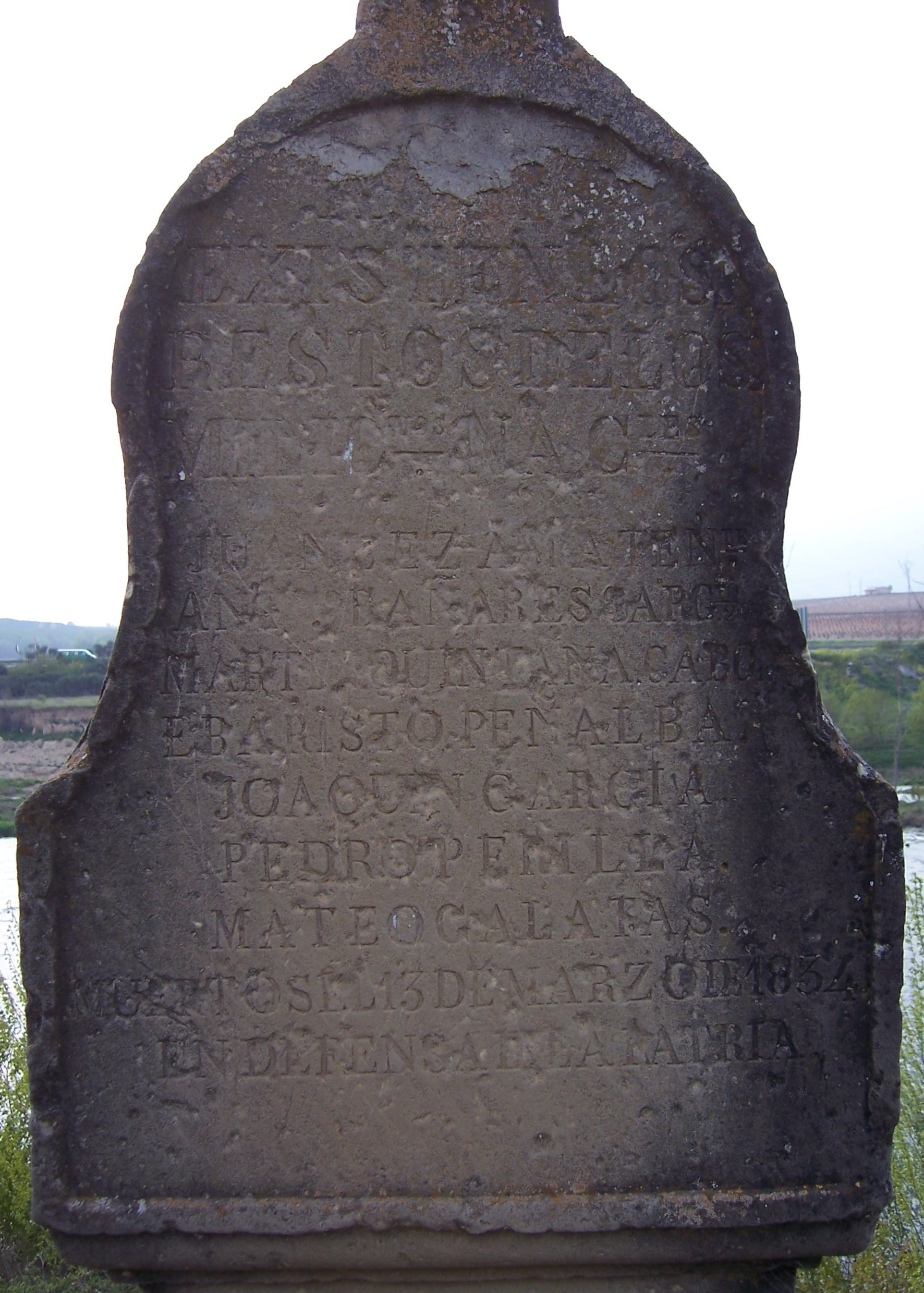 Pantheon of the Liberals in Haro, La Rioja (Spain)